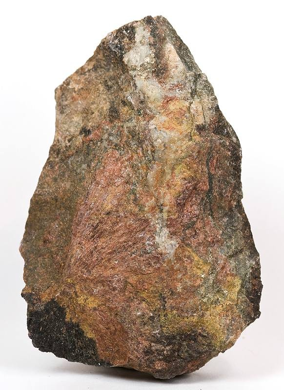 Triploidite Locality: Abija N. Fillow Quarry (Branchville Quarry), Branchville, Redding, Fairfield County, Connecticut, USA (Locality at ) Size: 7.0 x 4.8 x 2.6 cm. A rare phosphate, from the type locality circa late 1800s. The triploidite is the radiating, embedded, marginally crystalline reddish material. From the noted collection of William Drown who, according to the Mineralogical Record Archive on him, was an umbrella manufacturer who used his fortune to amass a collection of some 6000 mineral specimens. His collection was kept by his family for a generation after his death and then donated in 1918. Ex. Philadelphia Academy of Sciences Collection.